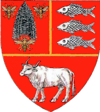 Coat of arms of Vaslui County, Romania.